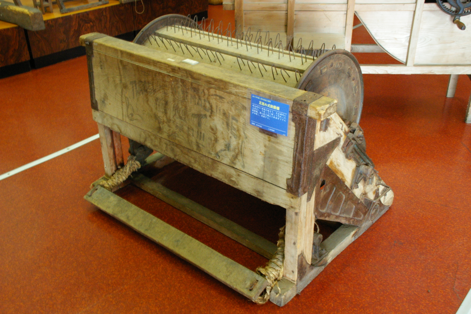 Rice thresher displayed at the Obira Town Local History Museum, Hokkaido, Japan